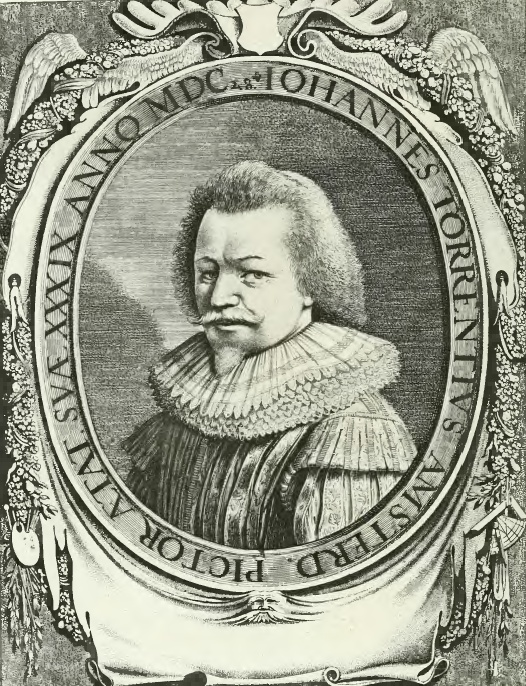 Johannes Torrentius (Johannes van der Beeck)